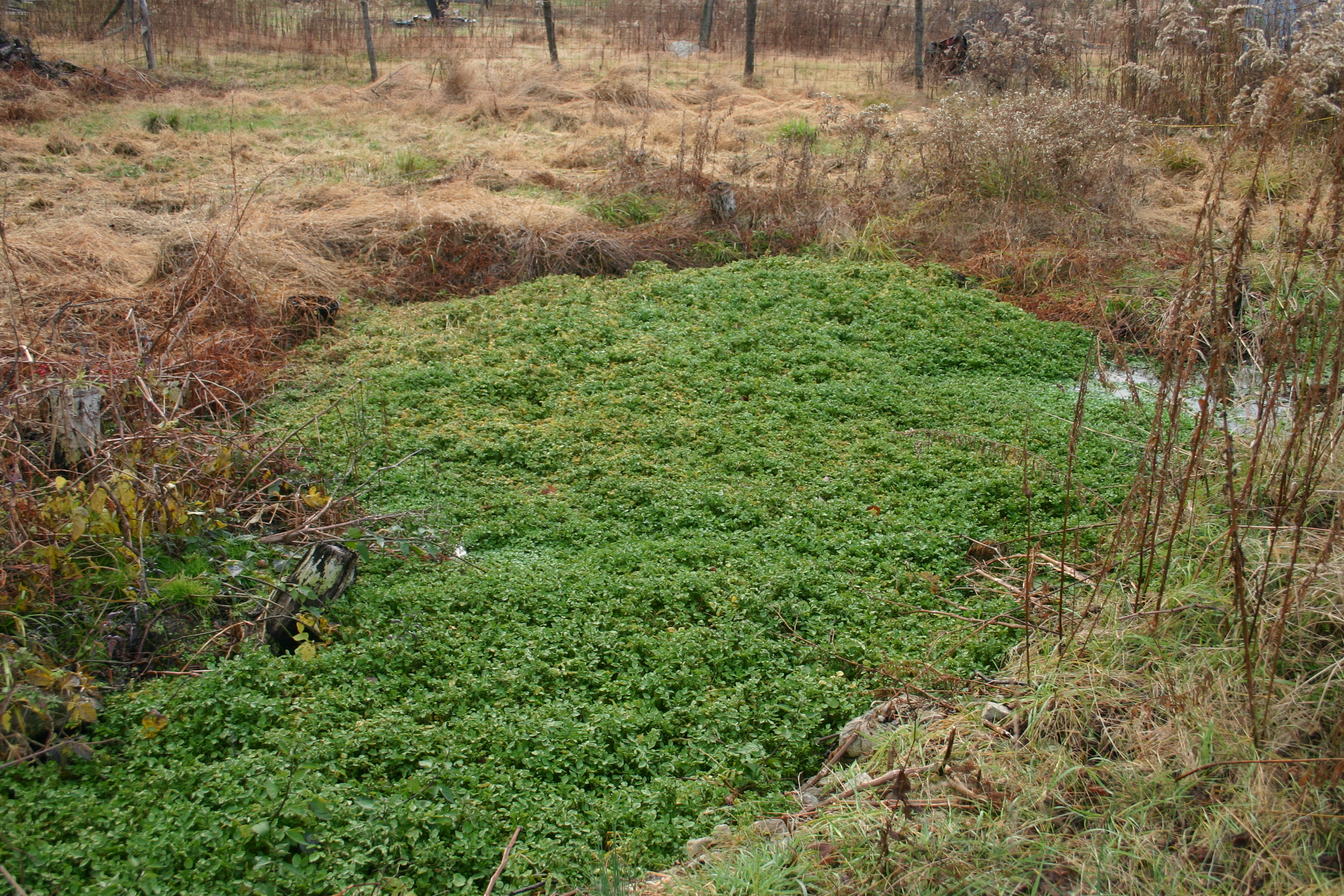 Nasturtium nasturtium-aquaticum growing wild in an old farm pond